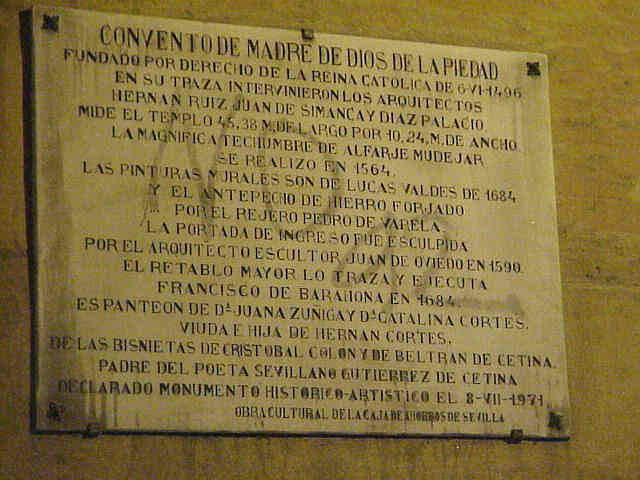 A poor quality photograph of commemorative plaque on covent wall.